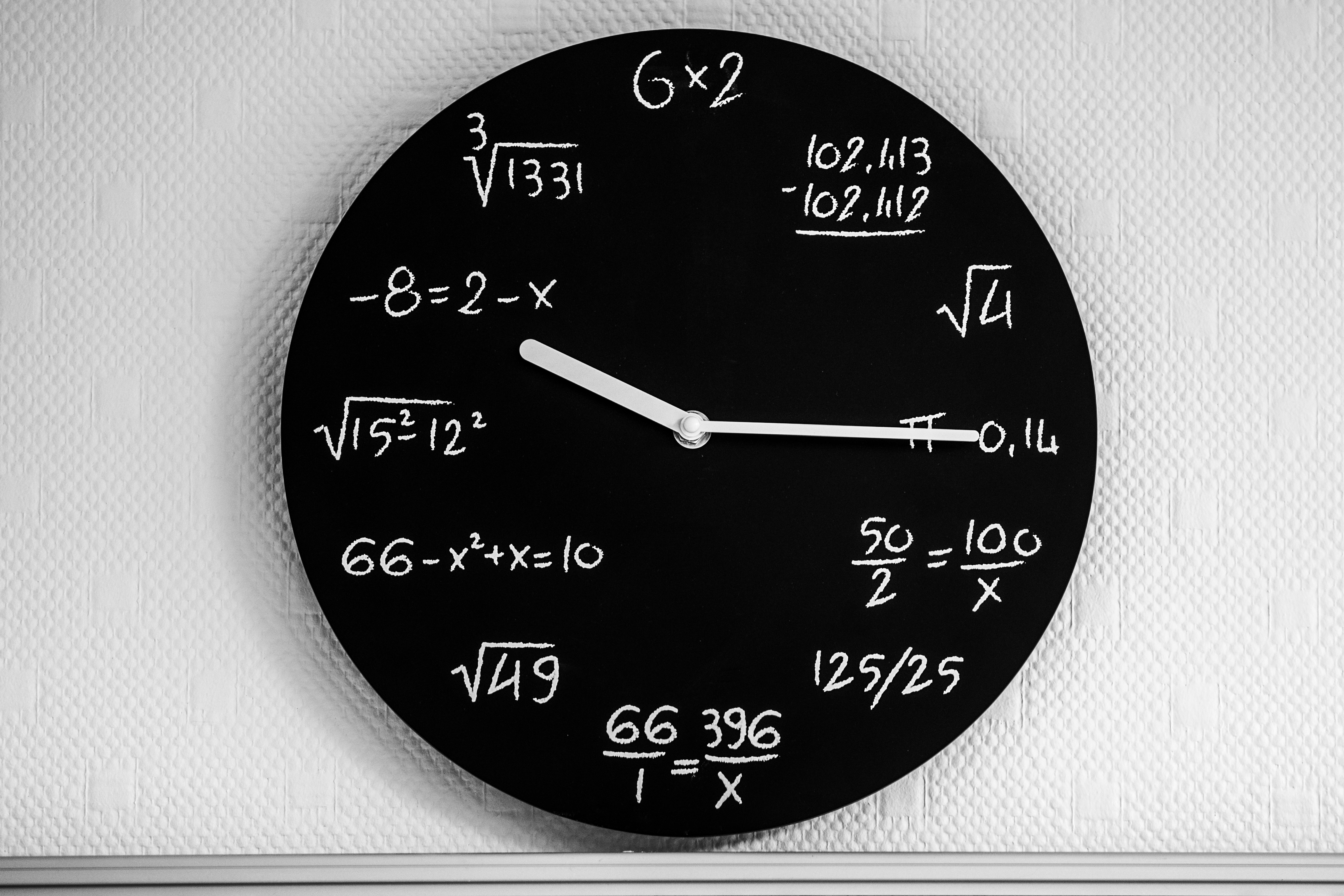 "Mathematical clock" located at the Laurent Schwartz Mathematics Center of École Polytechnique (France).